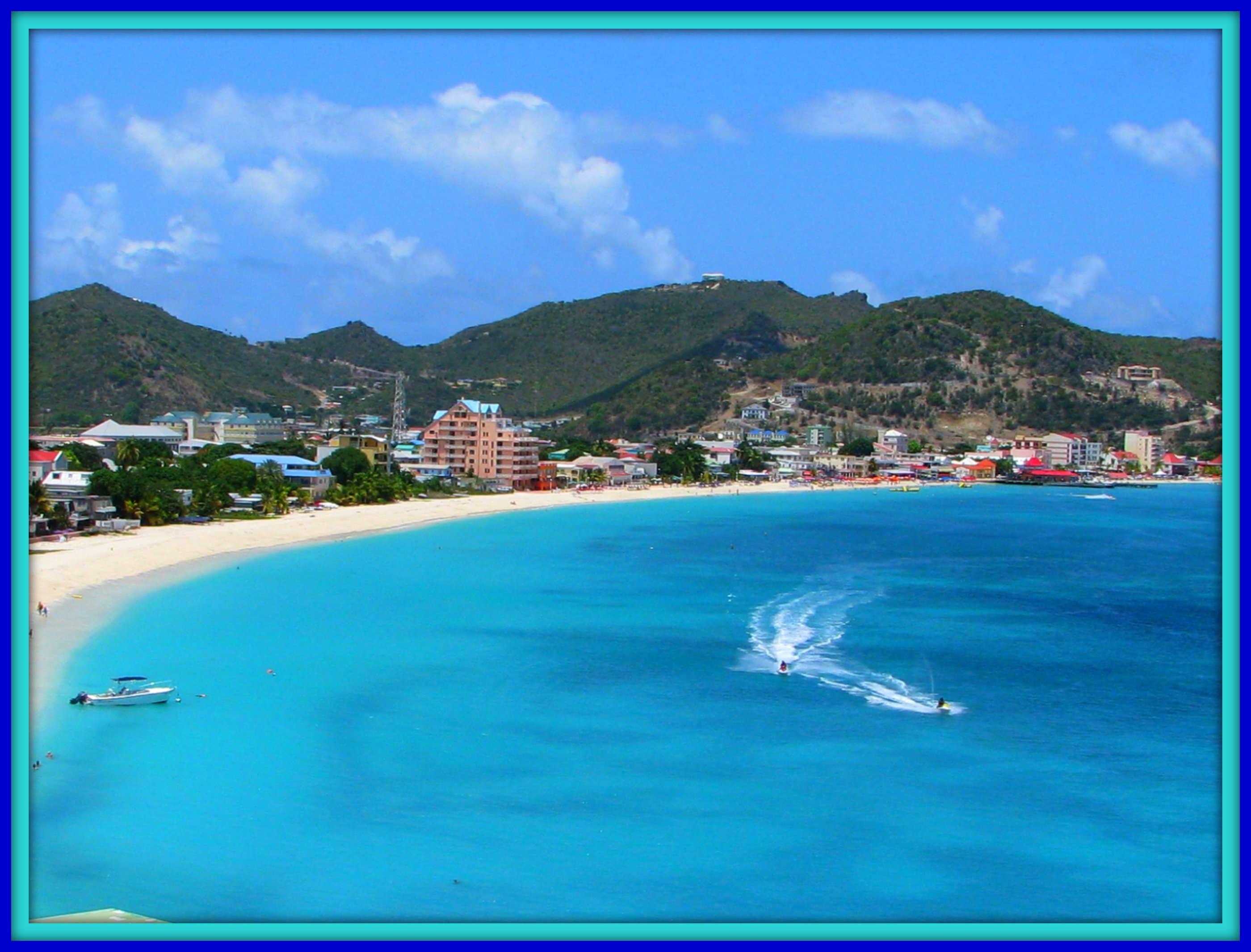 The bay in front of Philipsburg, which is the capital of Dutch St. Maarten